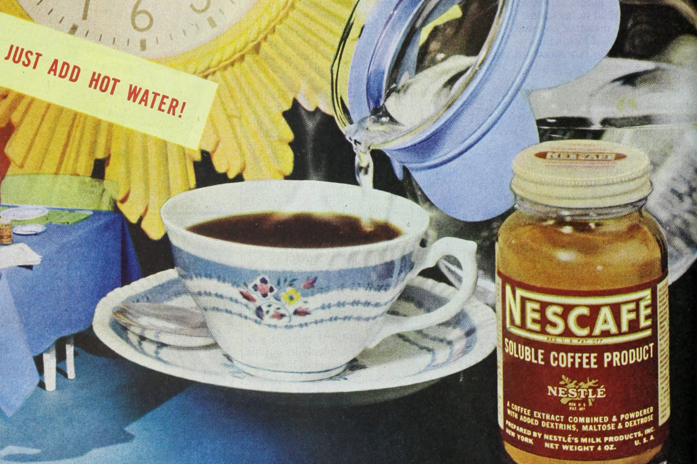 Nescafé advertisment, 1948.